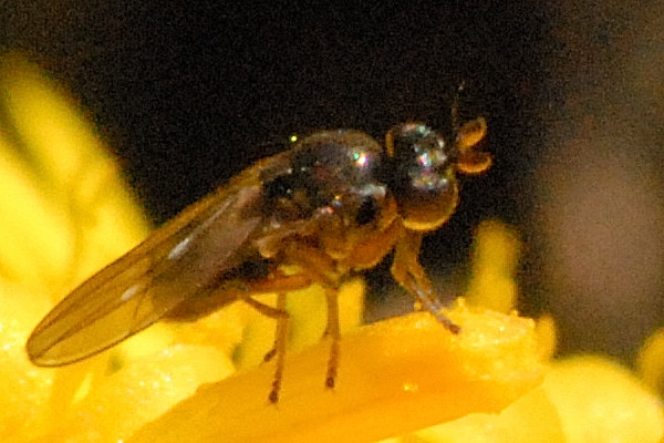 Sapromyza basalis from Commanster, Belgian High Ardennes .